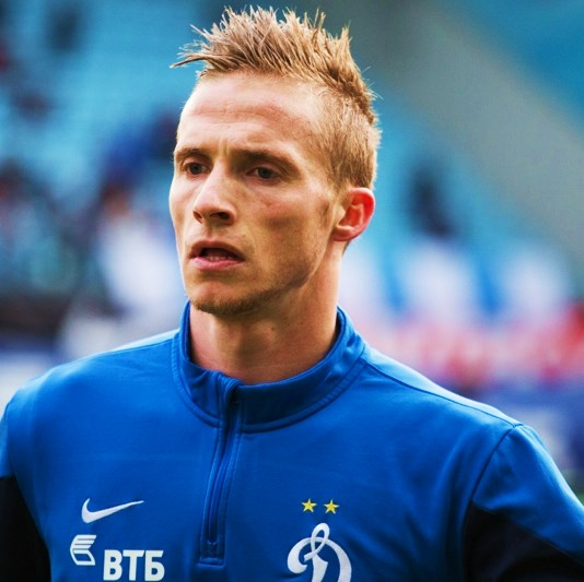 Alexander Büttner